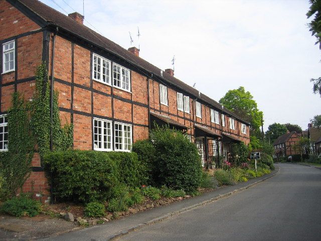 Ashow. This beautiful Warwickshire village sits in a secluded loop away from the main roads and overlooks the River Avon.